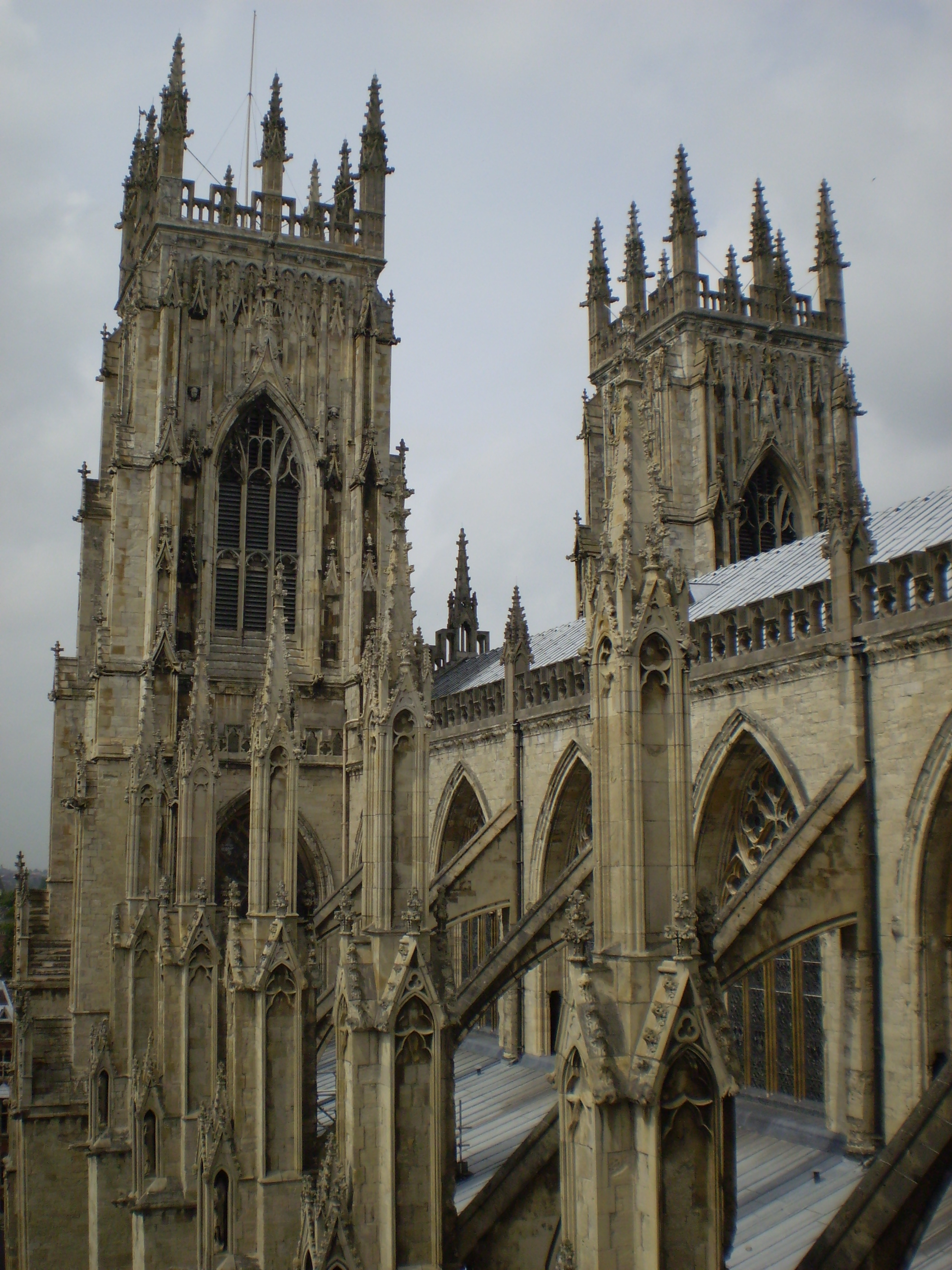 York Minster as seen from halfway up the bell tower.